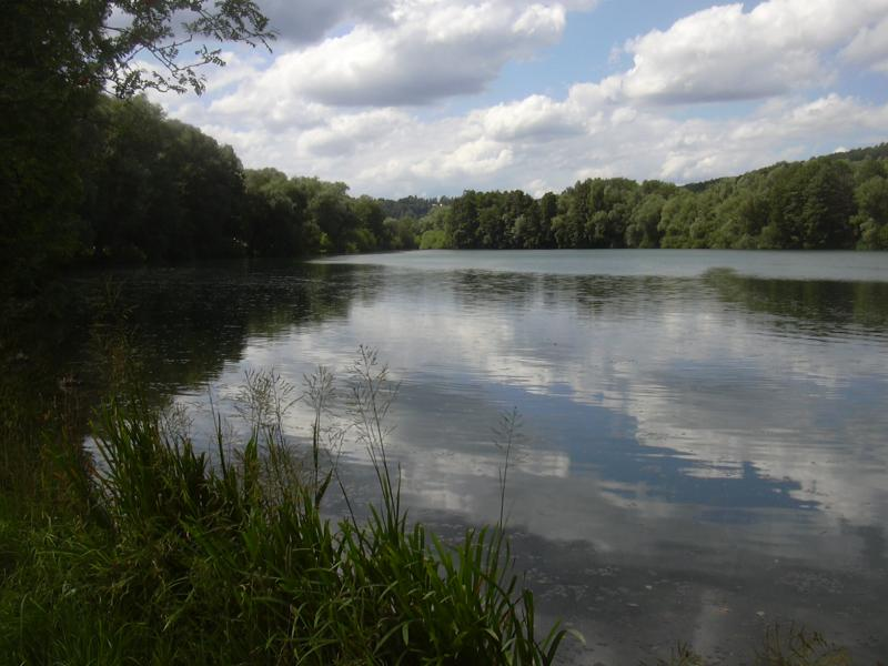 Lake at Itzelberg, Germany (reservoir of the Brenz river)